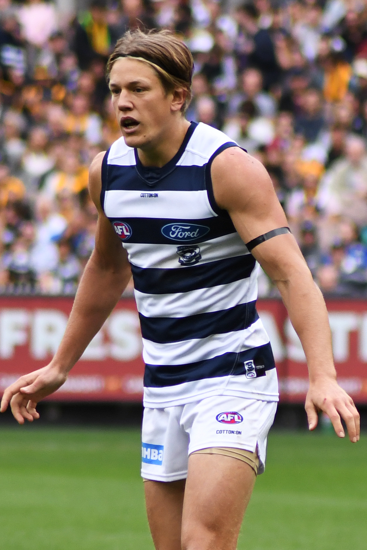 Rhys Stanley of Geelong during the 2019 AFL round 5 match between Hawthorn and Geelong at the Melbourne Cricket Ground on Monday, 22 April 2019 in Melbourne, Victoria.